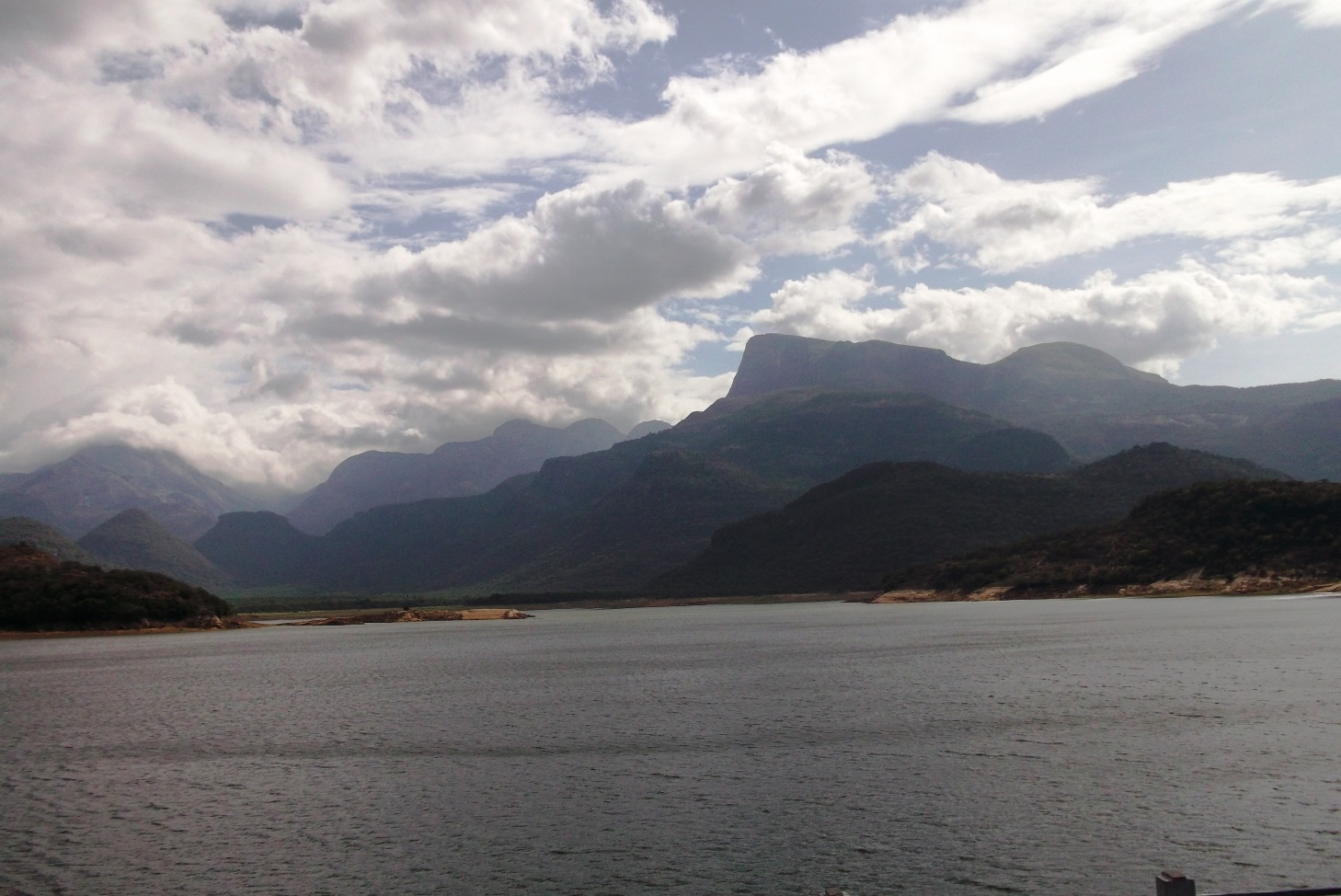 Amaravathi Dam and reservoir